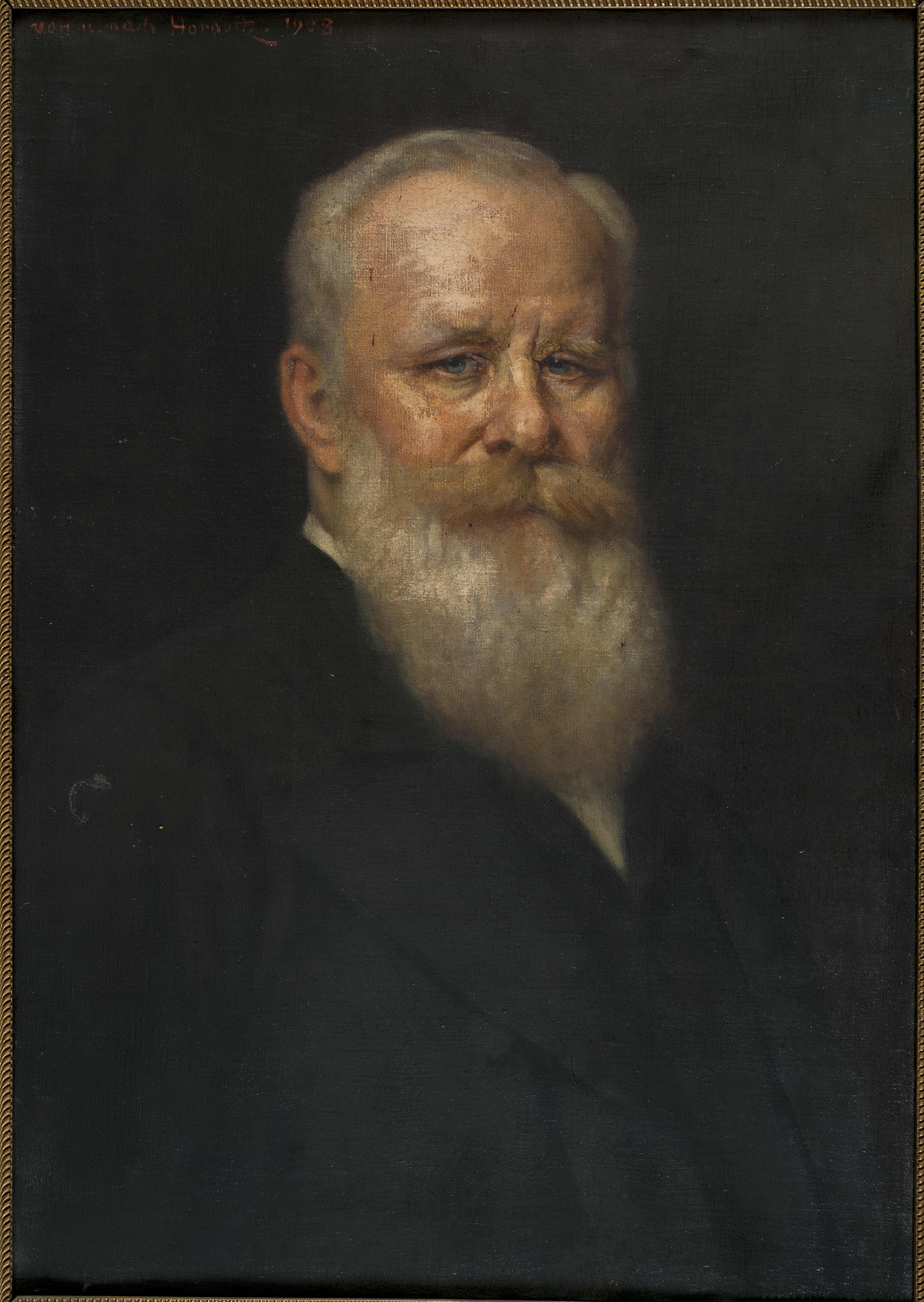 Oil painting by Leopold Horovitz (1837-1917), Vienna, 1908. Signature top left reads "by and after Horovitz, 1908." From the bequest of Hermann Nothnagel's daughter Marie-Edith Strasburger, wife of Julius Strasburger. Photographed by Hans Strasburger, Munich, Germany, 2016-01-30.